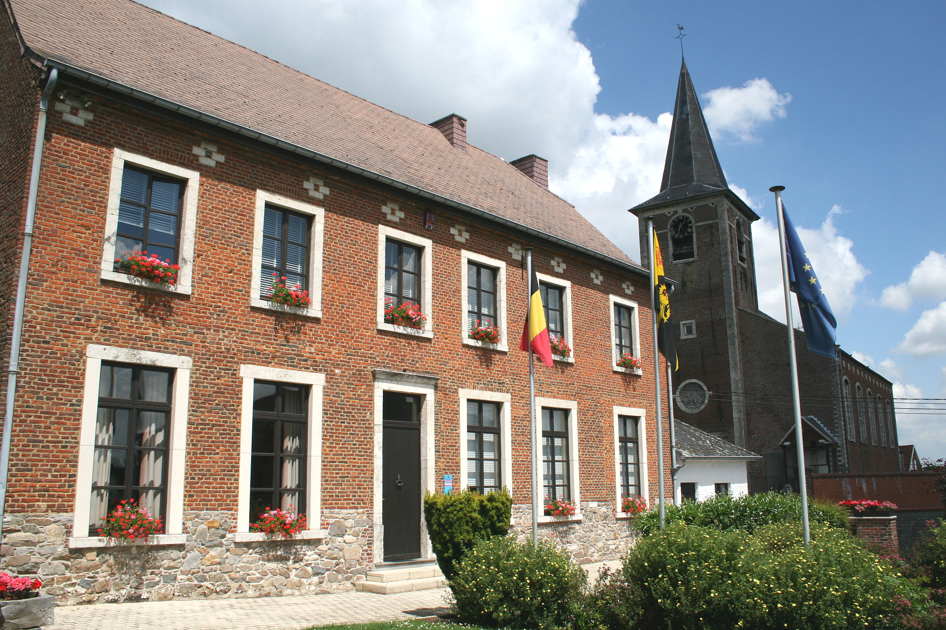 Incourt Belgium, the town hall and the Saint Peter church (1780).